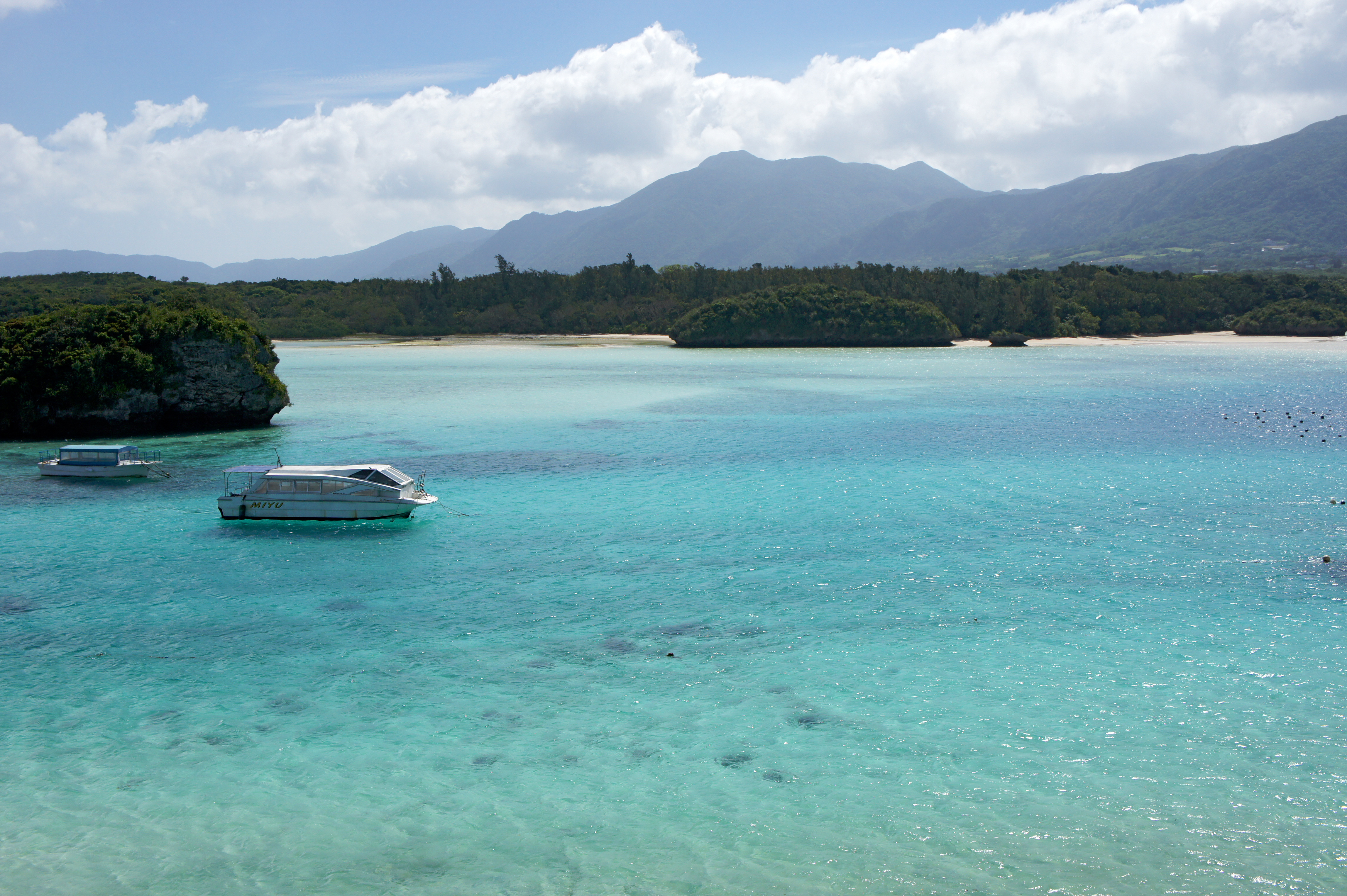 Kabira Bay of Ishigaki Island in Ishigaki City, Okinawa Prefecture, Japan. It is one of the Japan's Places of Scenic Beauty.